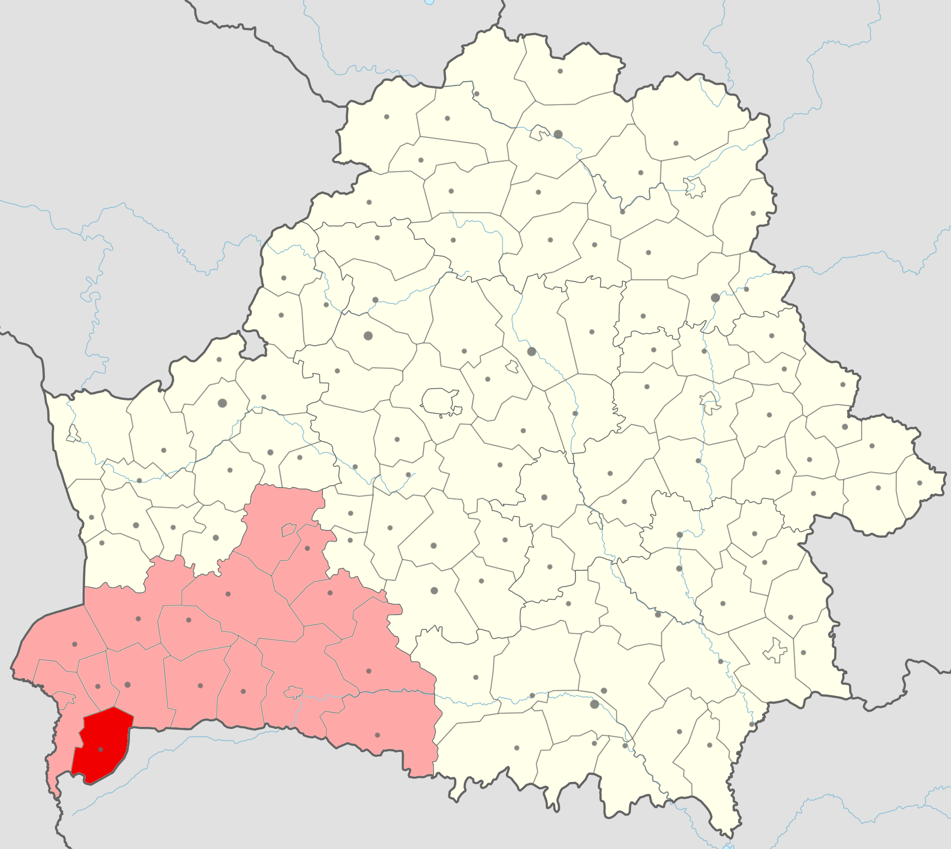 Location of Malarycki rajon (red) in Bresckaja voblasć (light red) in Belarus.